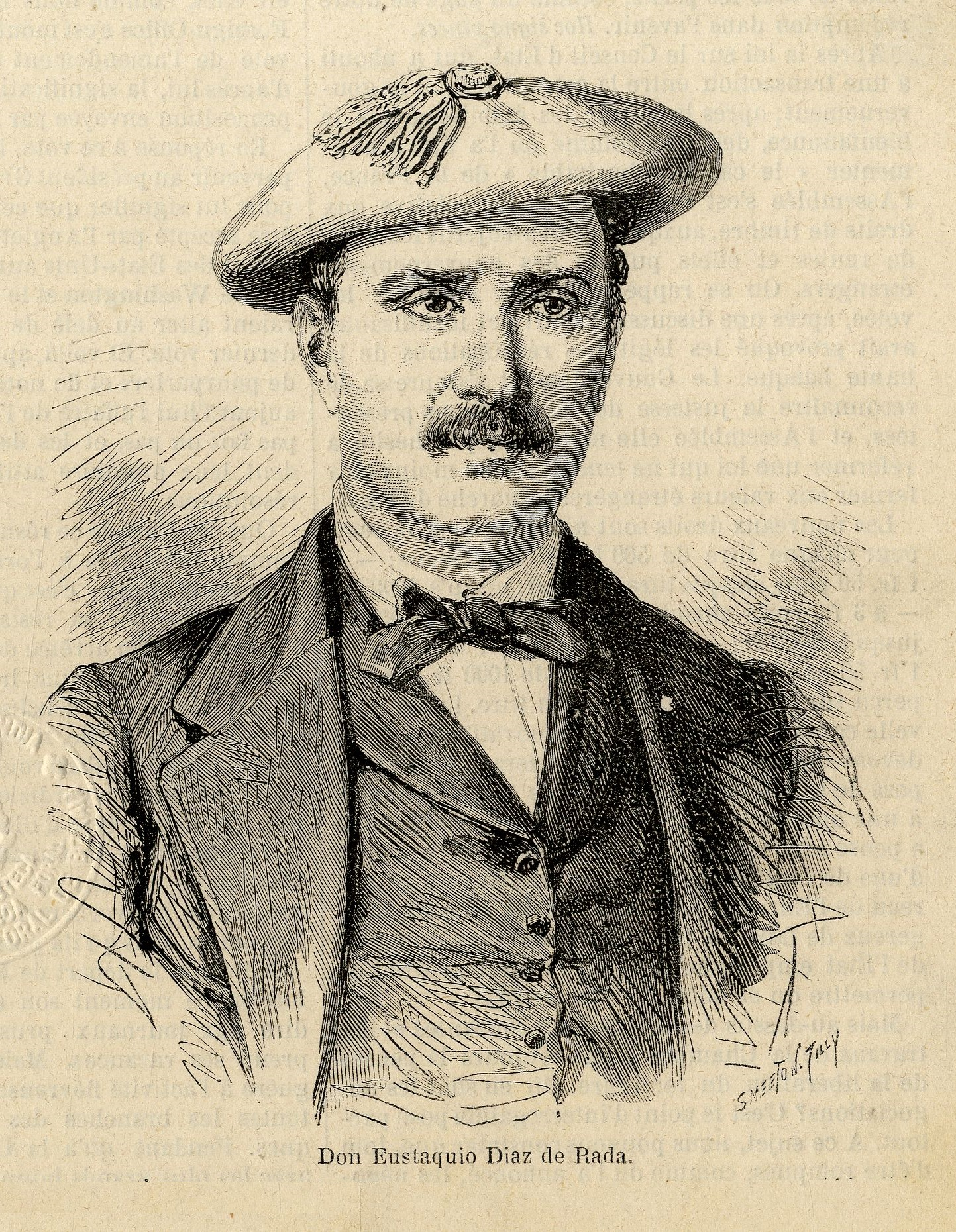 Eustaquio Díaz de Rada